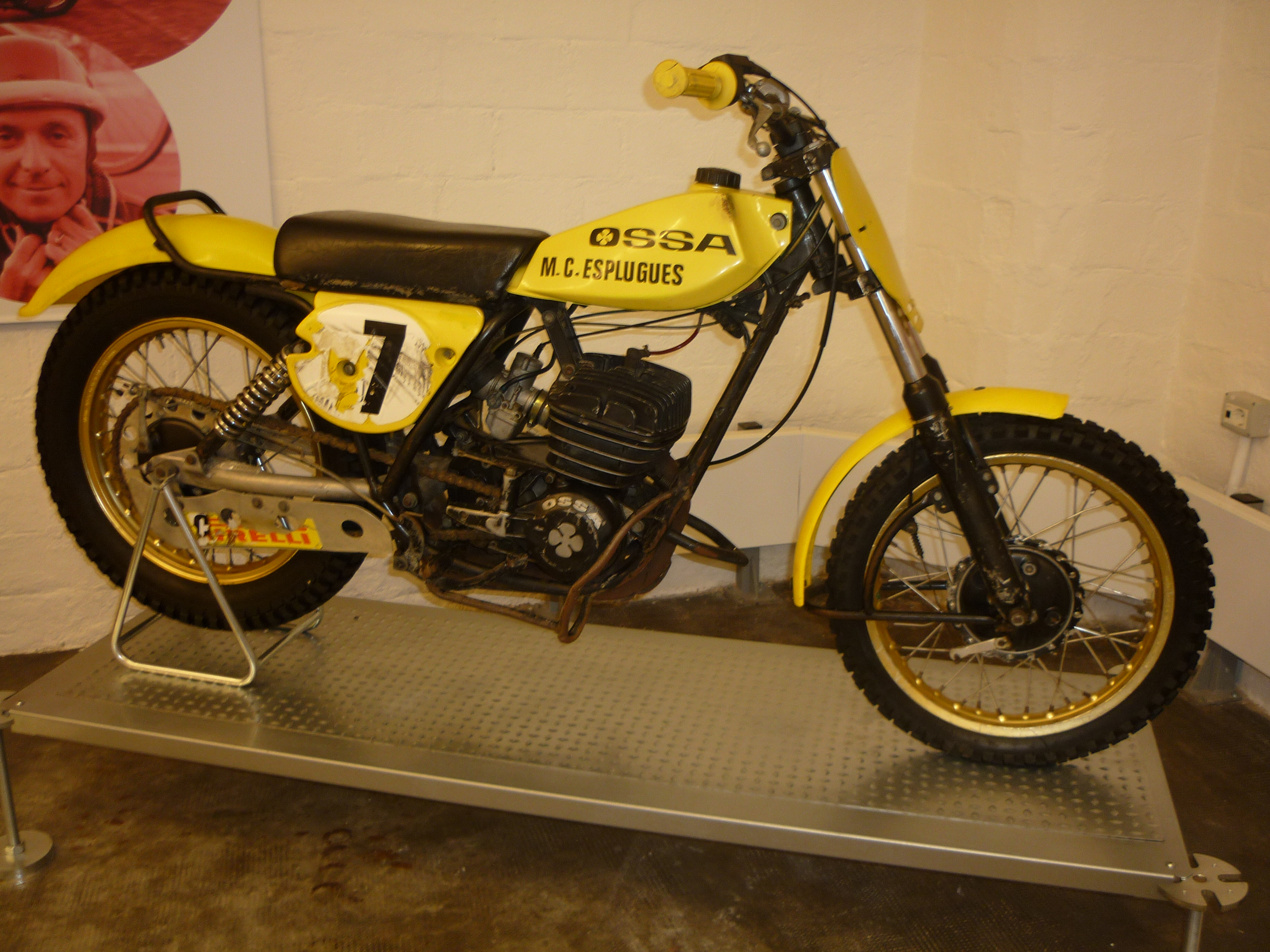 OSSA Motoball 250cc, 1980.